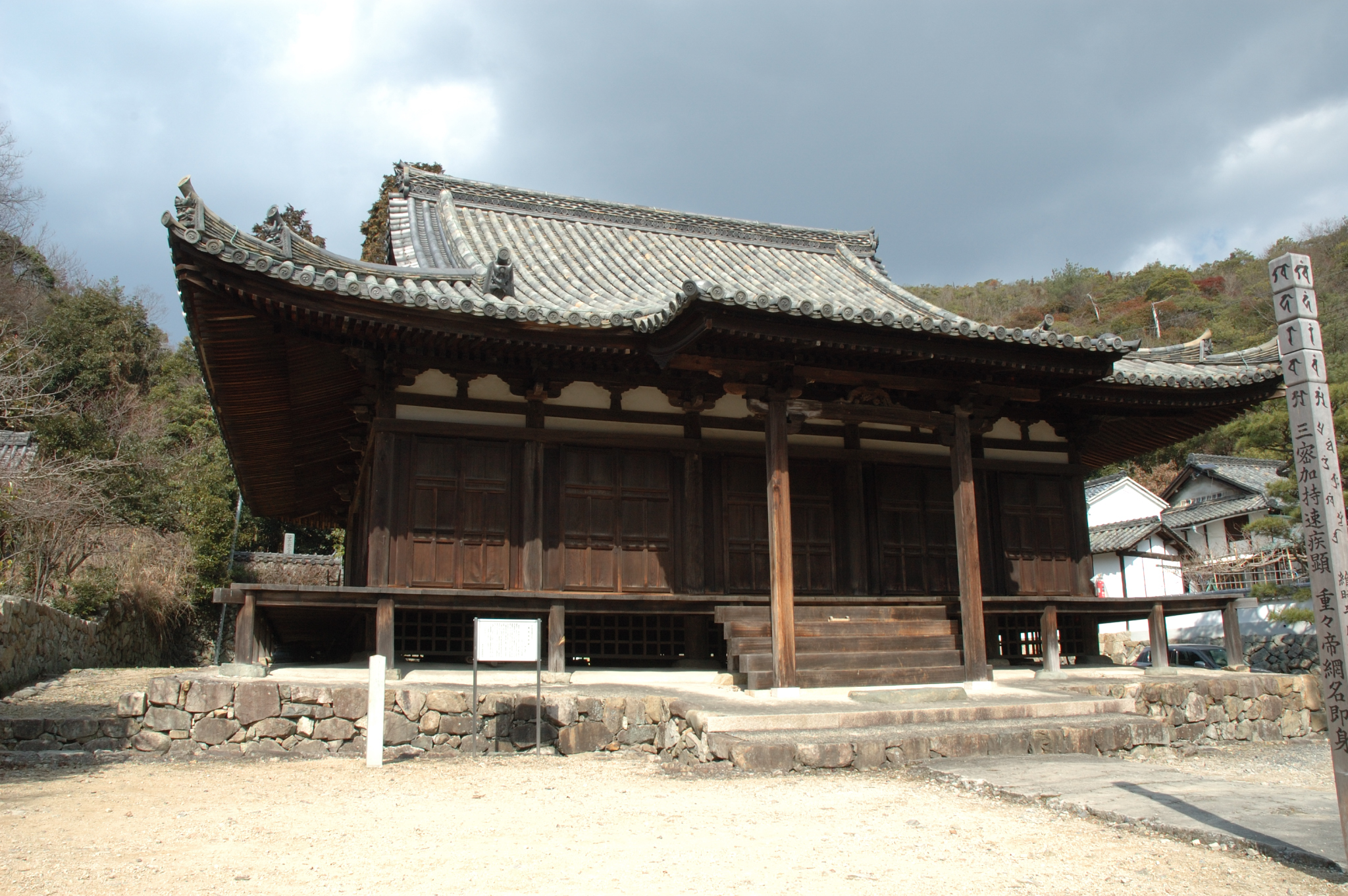 Hondo (Main Hall) of Shinko-ji temple. Bizen City, Okayama, Japan (Japan's national important cultural property)